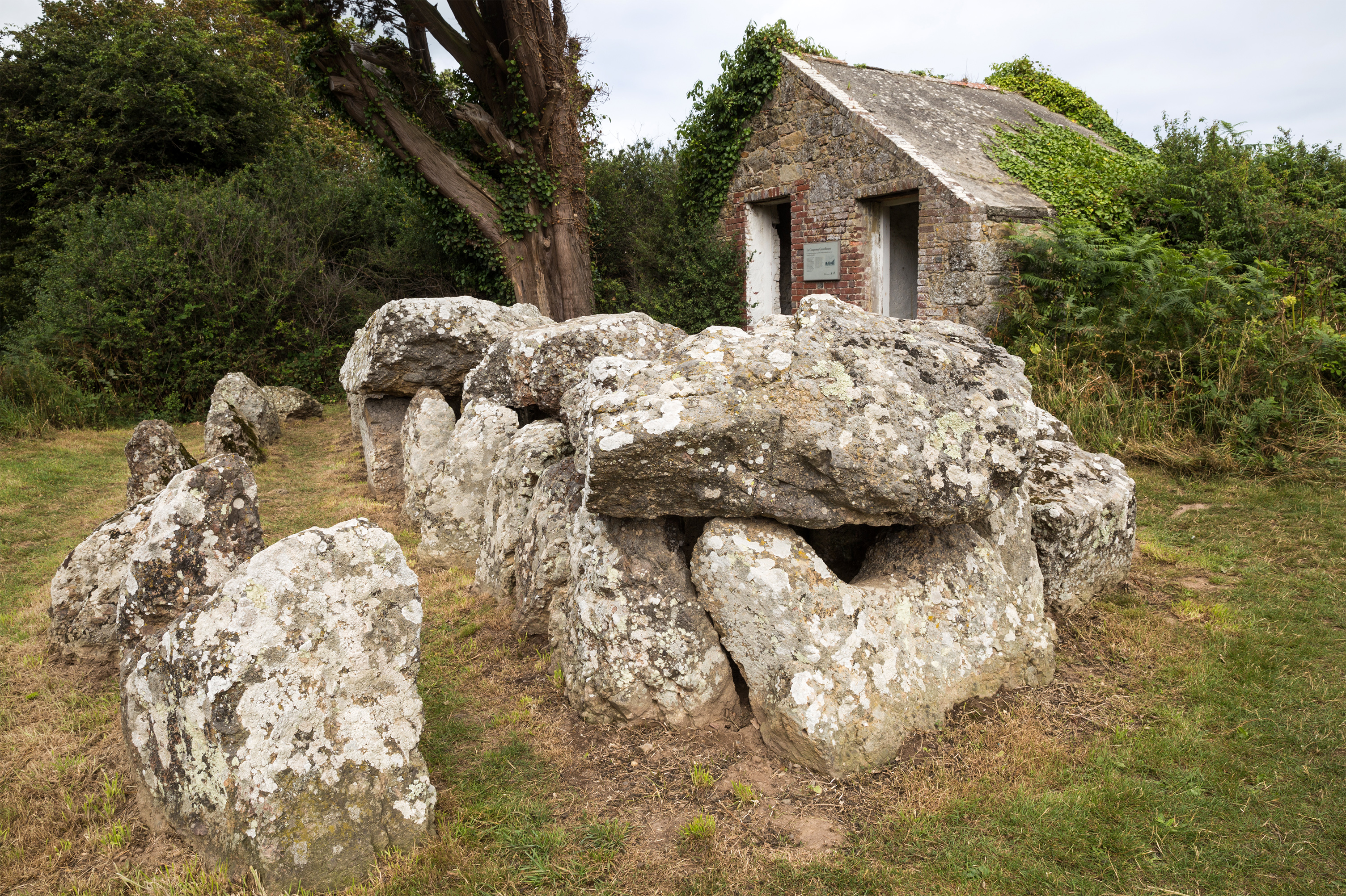 Le Dolmen du Couperon, island of Jersey